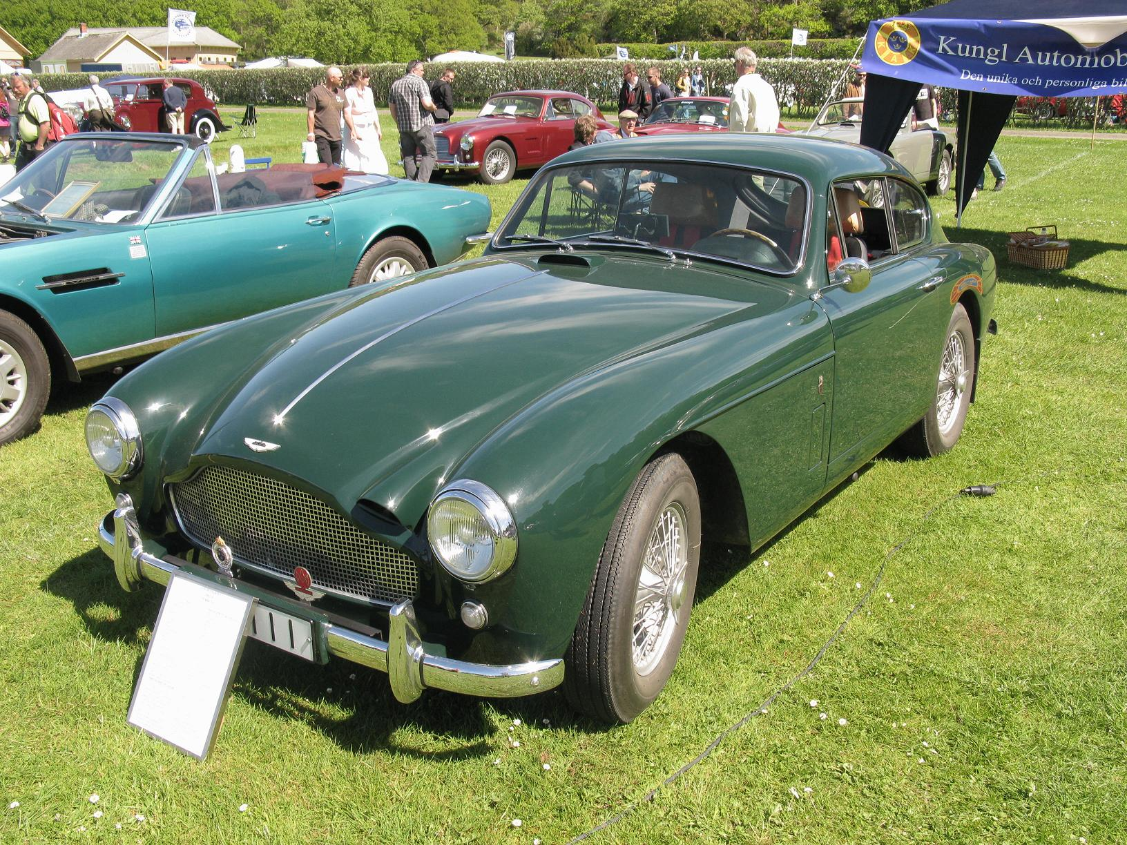 Aston Martin DB 2/4 Mk. III